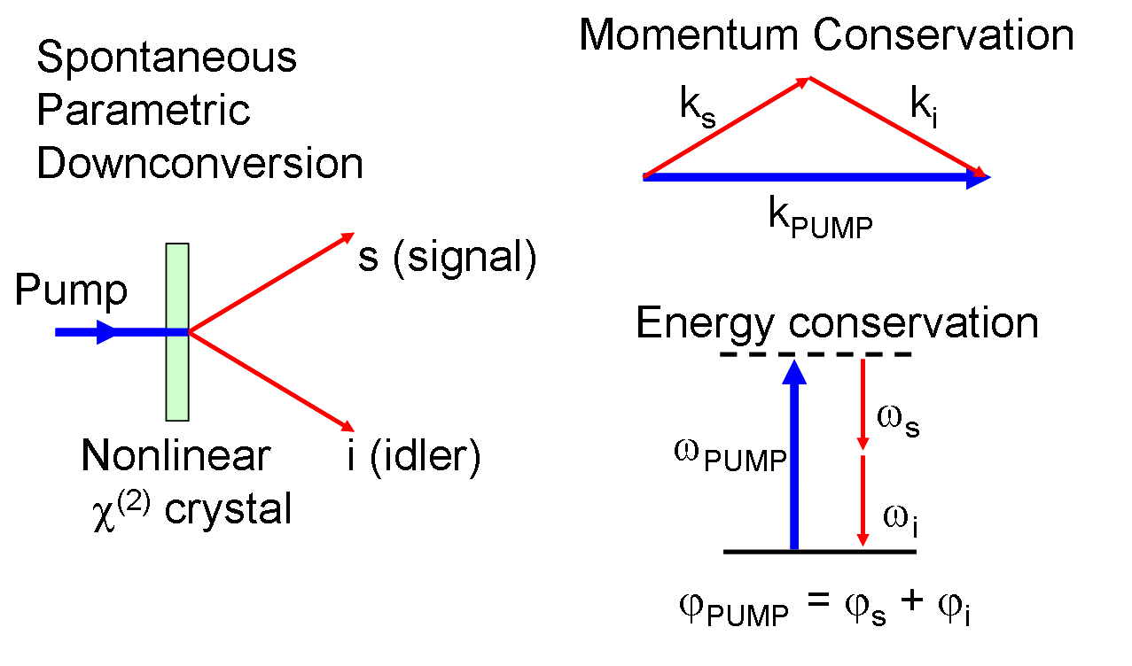 I made this image myself. It shows spontaneous parametric downconversion.